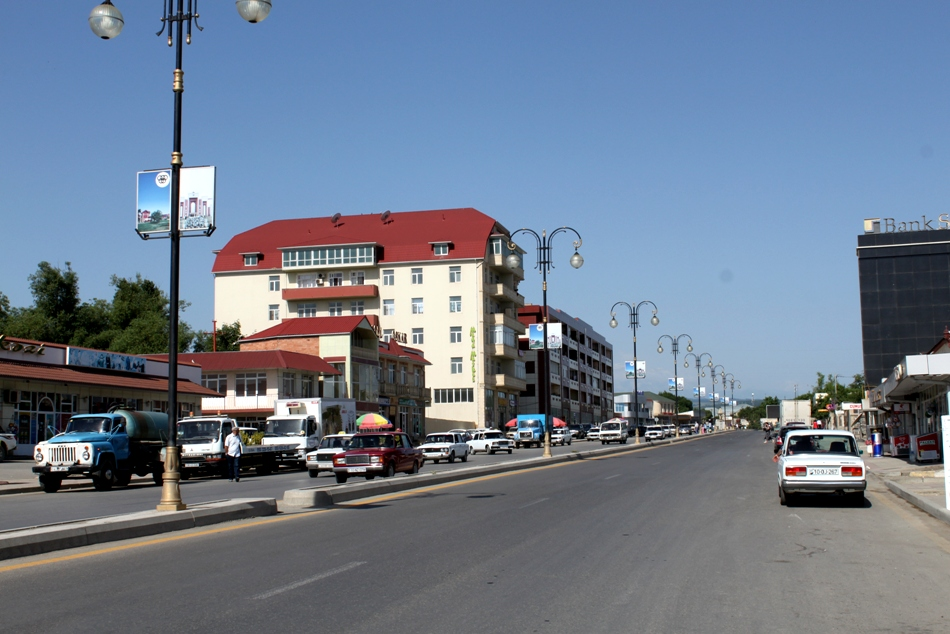 Quba city in Azerbaijan